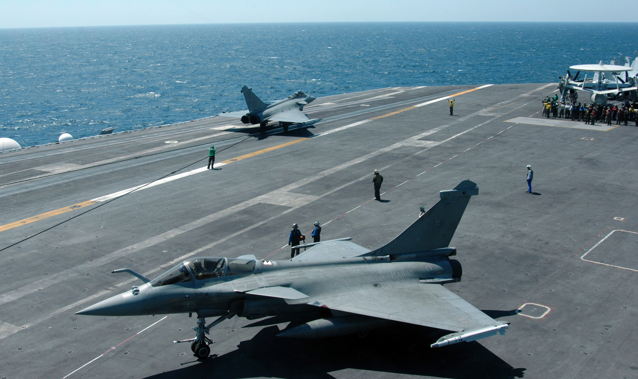 Two French Rafale Jets perform launch and recovery operations from the flight deck of the aircraft carrier USS Harry S. Truman (CVN 75).